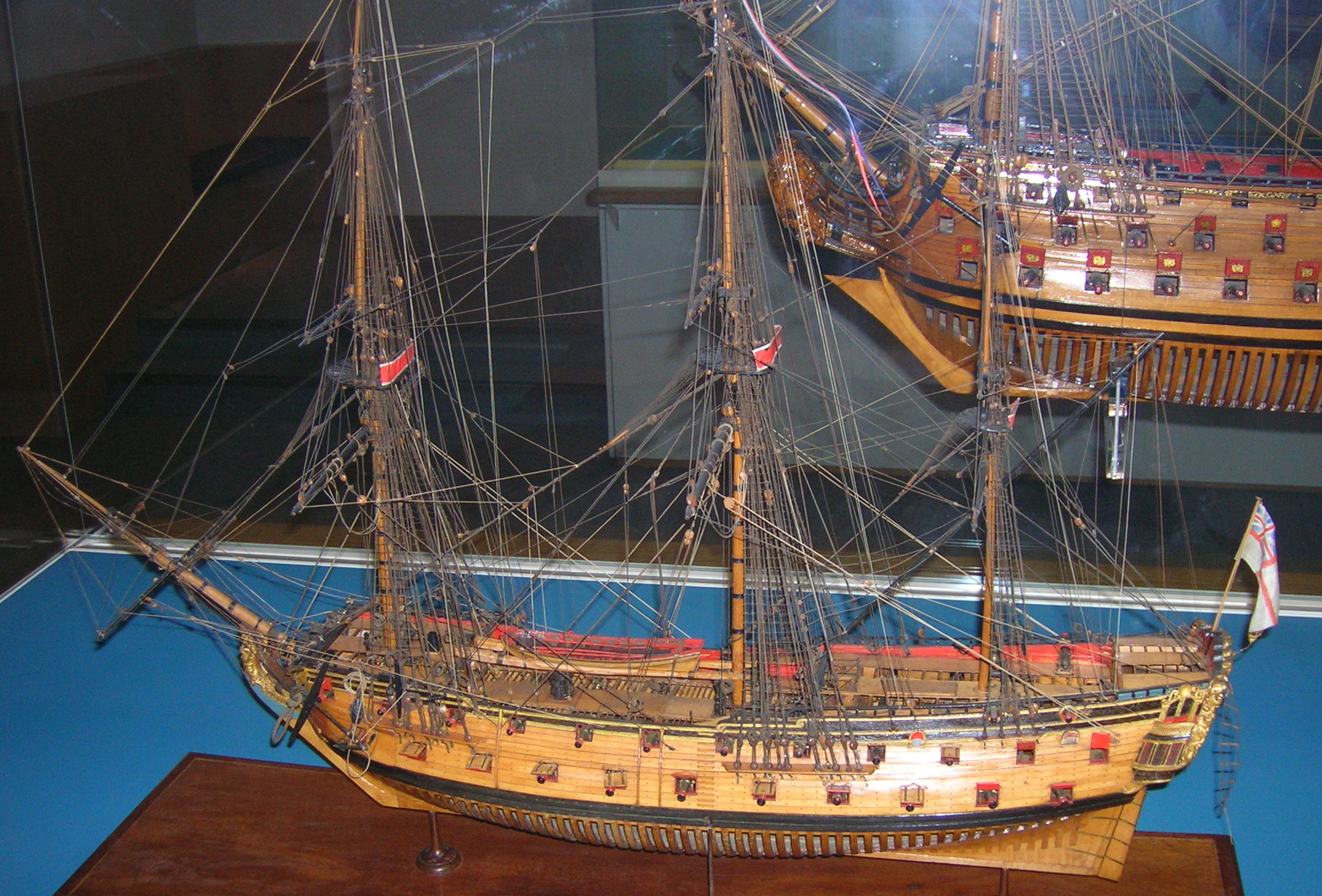 Model of a ship of 50-54 guns, Fourth rate, ca 1710.